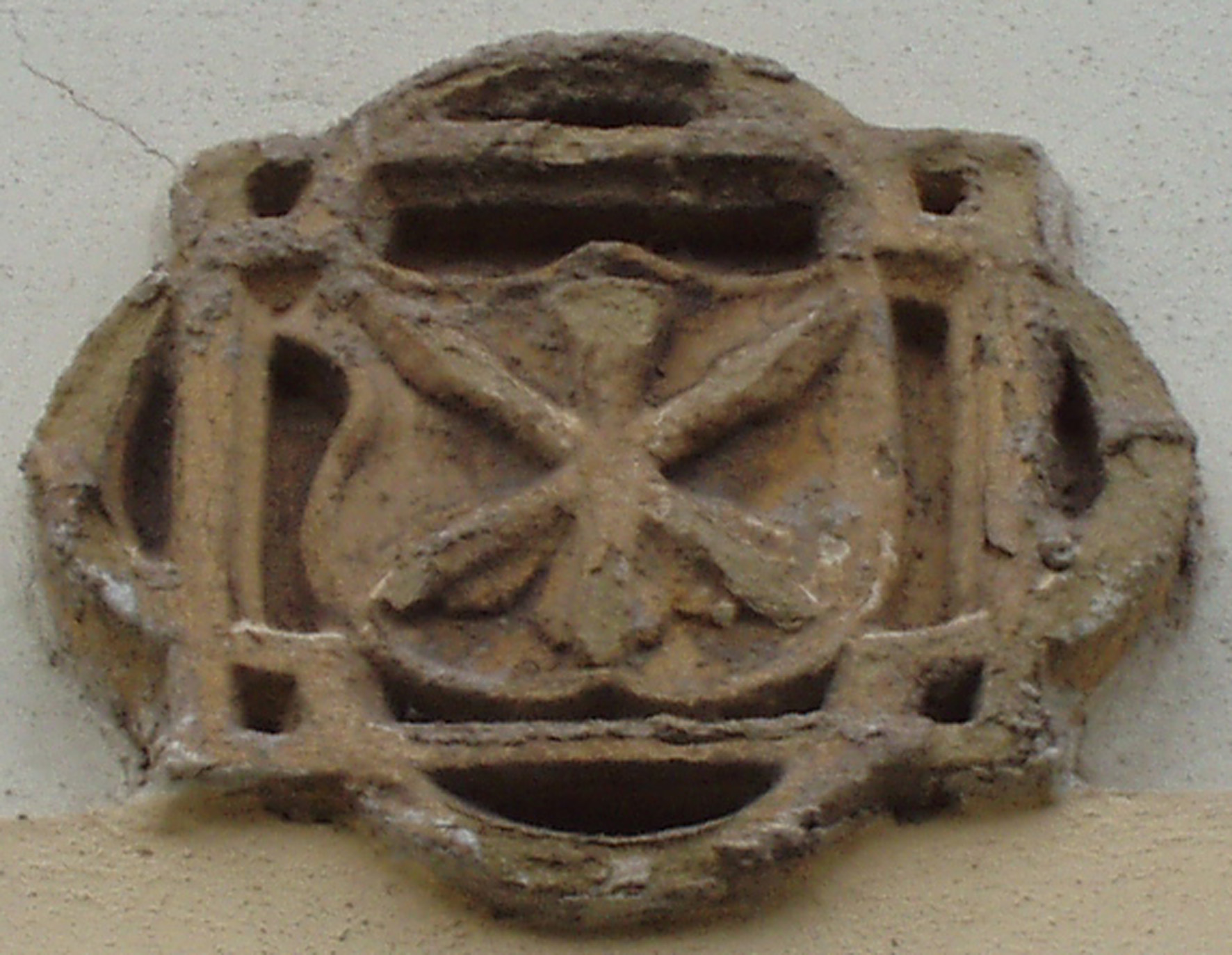 The coat of arms of Jan Filipec on the former Franciscan friary in Uherské Hradiště.